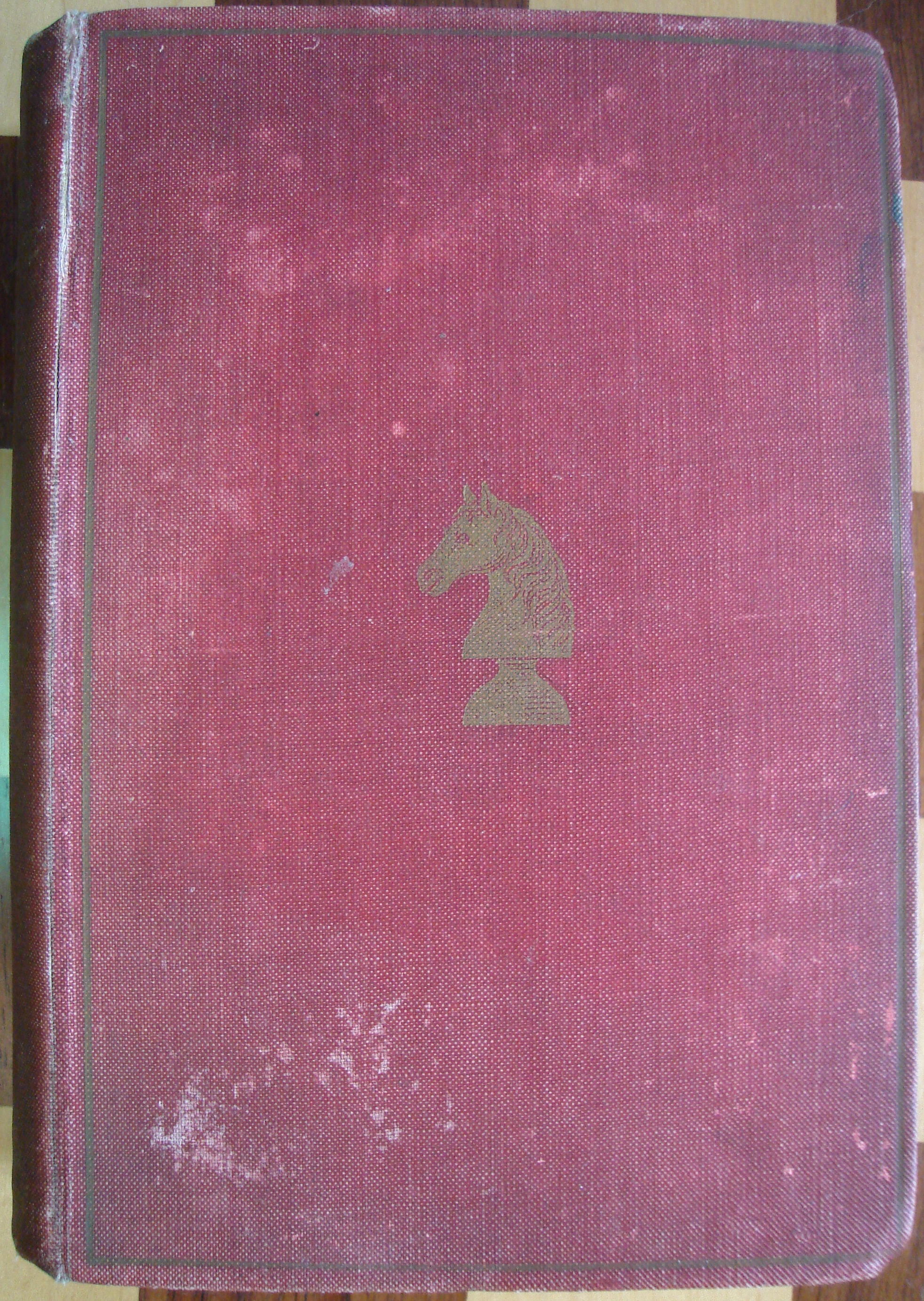 Photograph taken by me (not previously published) of front cover of book "The Complete Chess Guide" (published in 1903 by John Grant, 31 George IV. Bridge, Edinburgh, Scotland) by Francis Joseph Lee (died 1909) and George H. D. Gossip (died 1907).